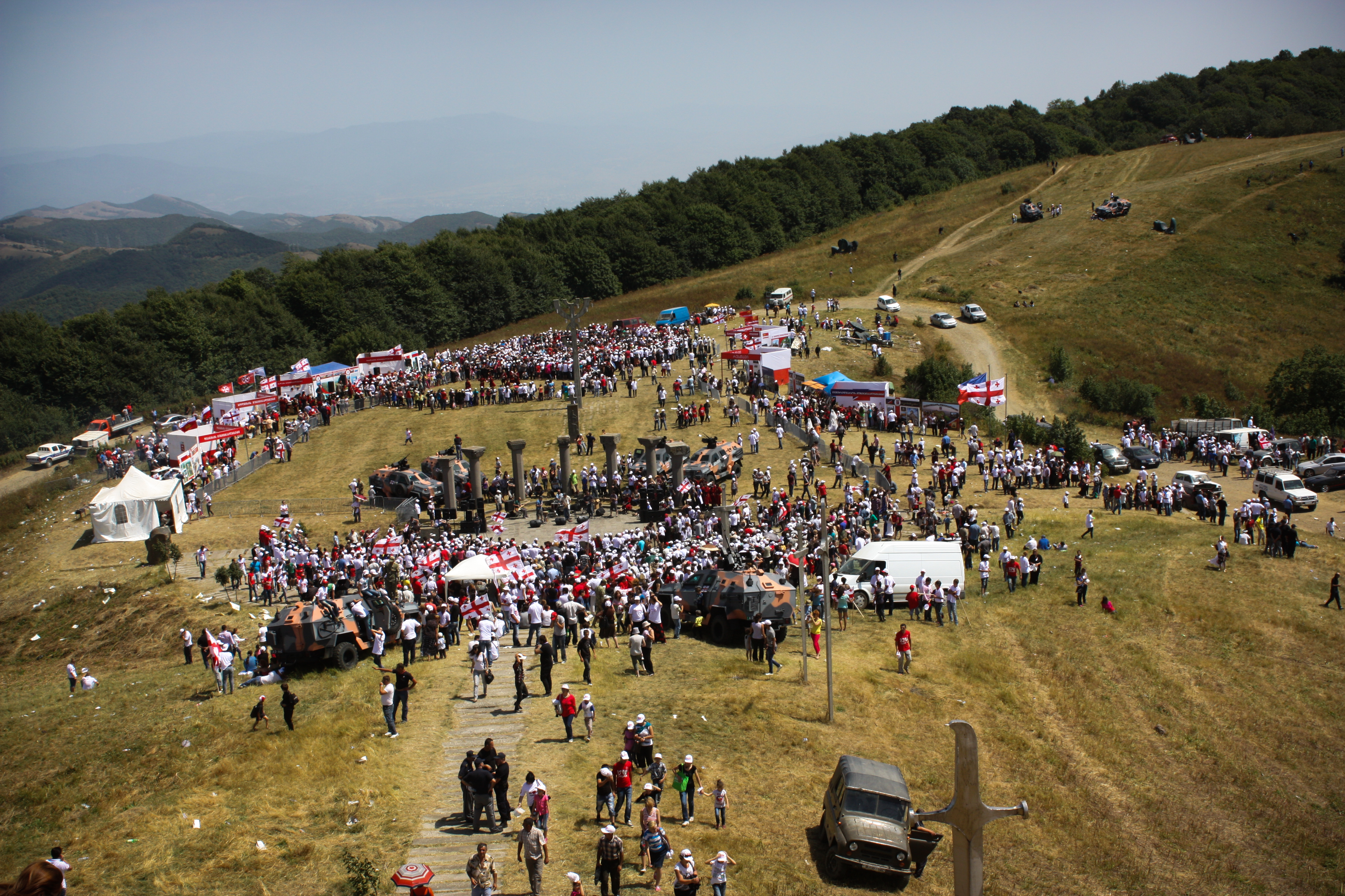 Didgoroba 2012